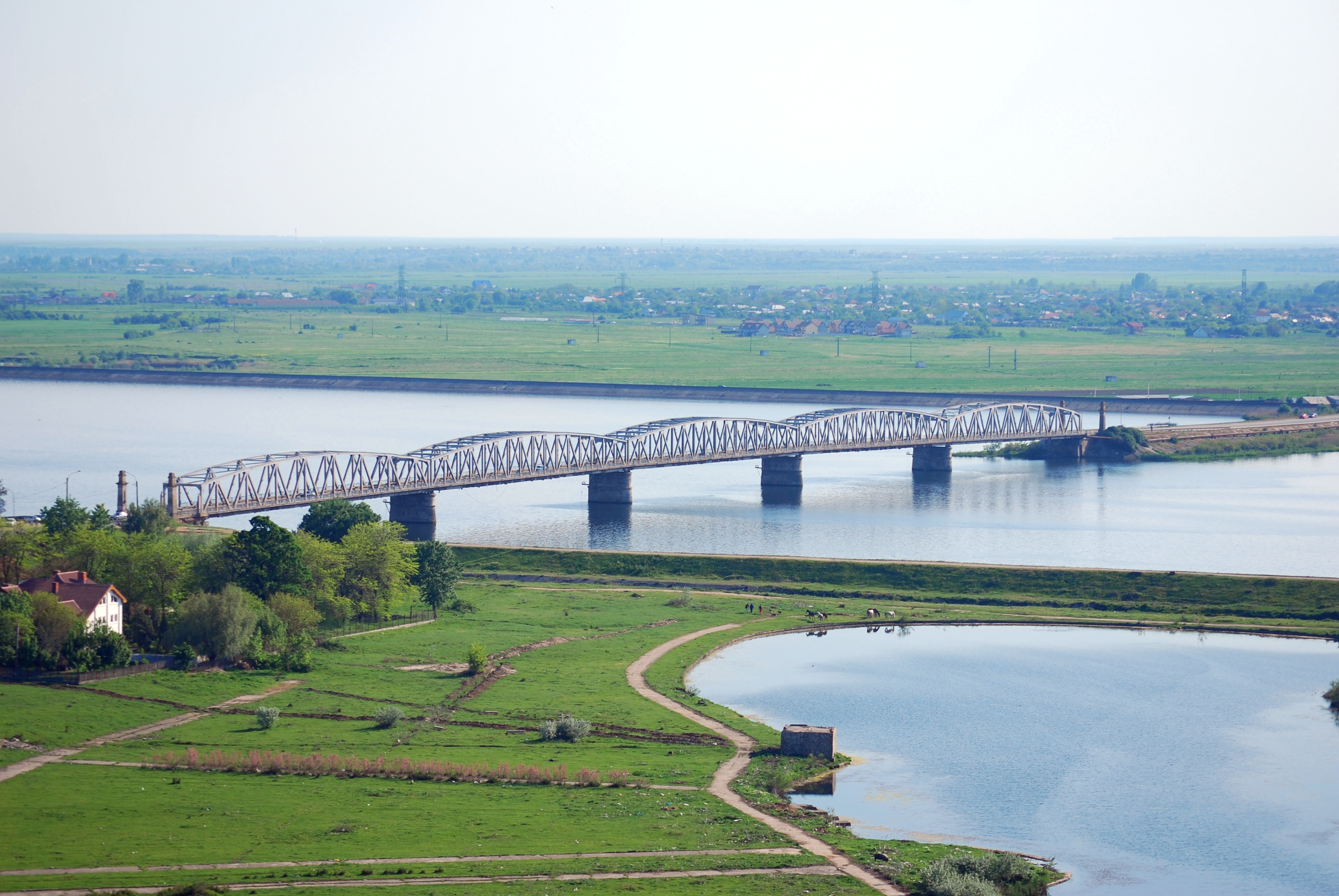 The bridge over the river Olt, next to Slatina, Olt County, Romania; seen from Grădişte hillRomână: Podul peste Olt de la Slatina, judeţul Olt, România; văzut de pe dealul Grădişte